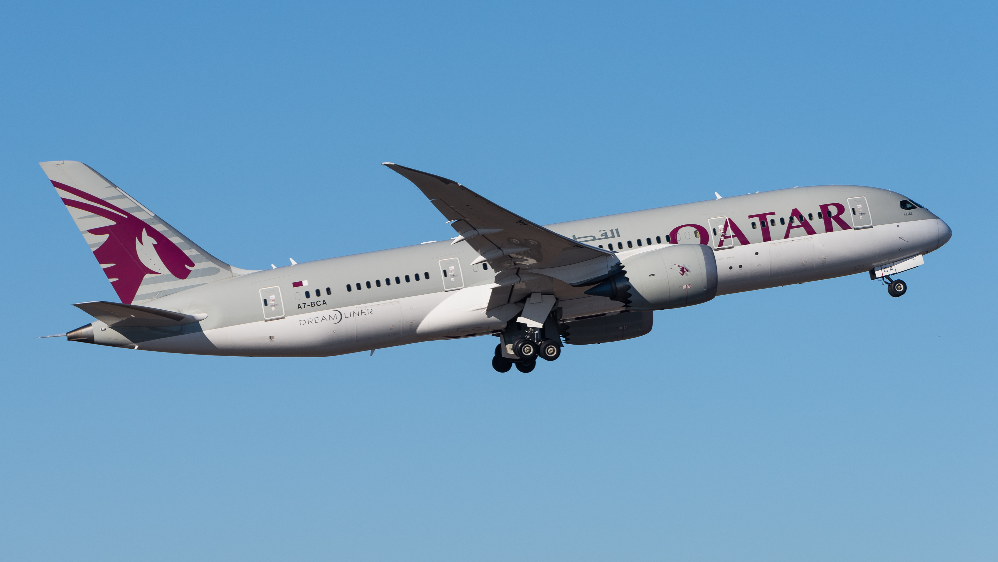 Qatar Airways Boeing 787-8 Dreamliner (reg. A7-BCA, msn 38319/57) at Munich Airport (IATA: MUC; ICAO: EDDM) departing 08R.